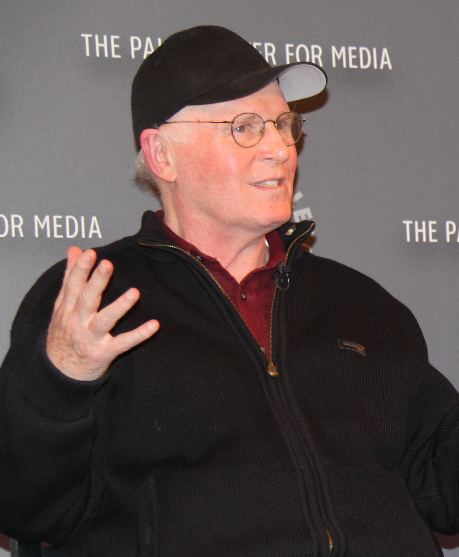 At the Paley Media Center, NYC.2/6/2013.